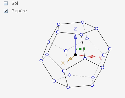 Dodecahedron in pseudo 3D. Made with the software CaRMetal.